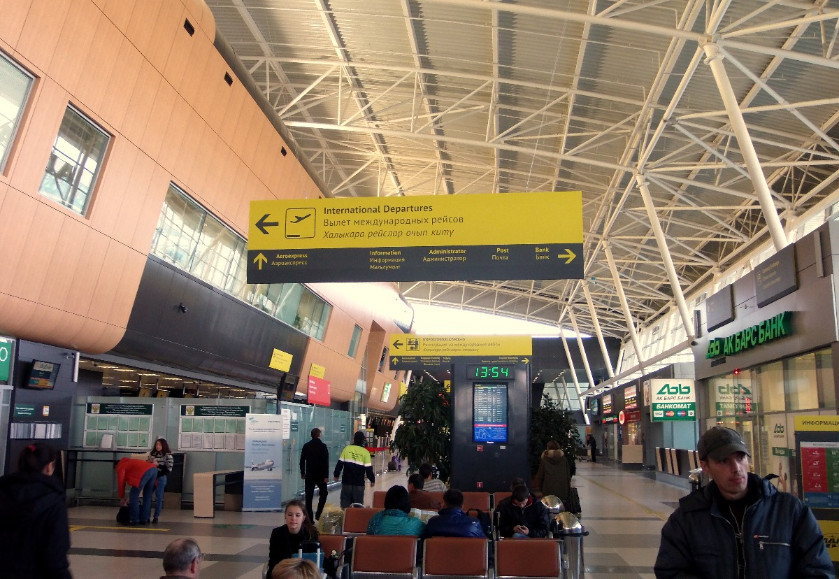 Terminal 1A Interior at Kazan airport